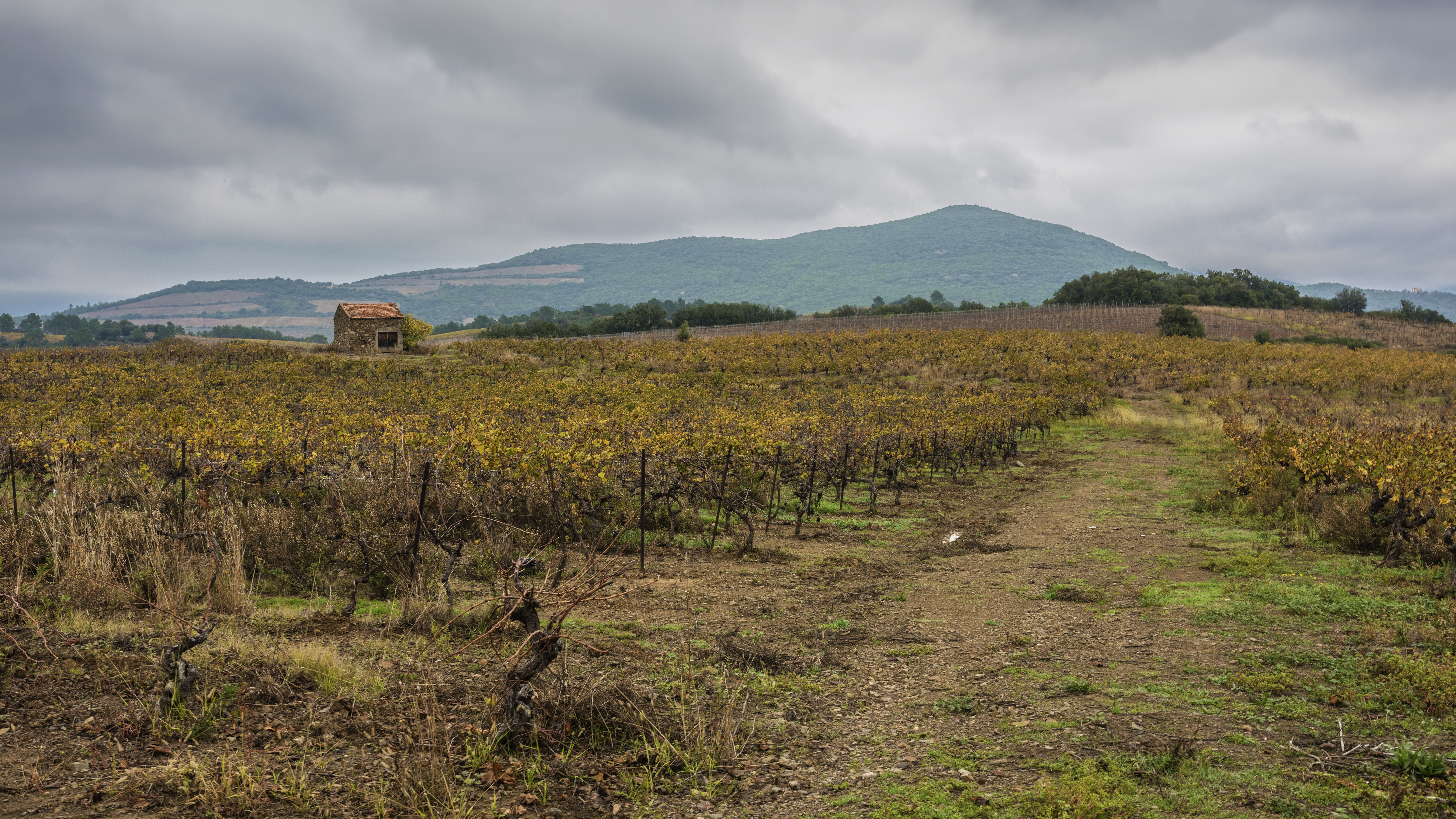 A mazet (occitan language name for a stoneworked construction) in vineyards of the AOC Saint-Chinian. Cessenon-sur-Orb, Hérault, France.